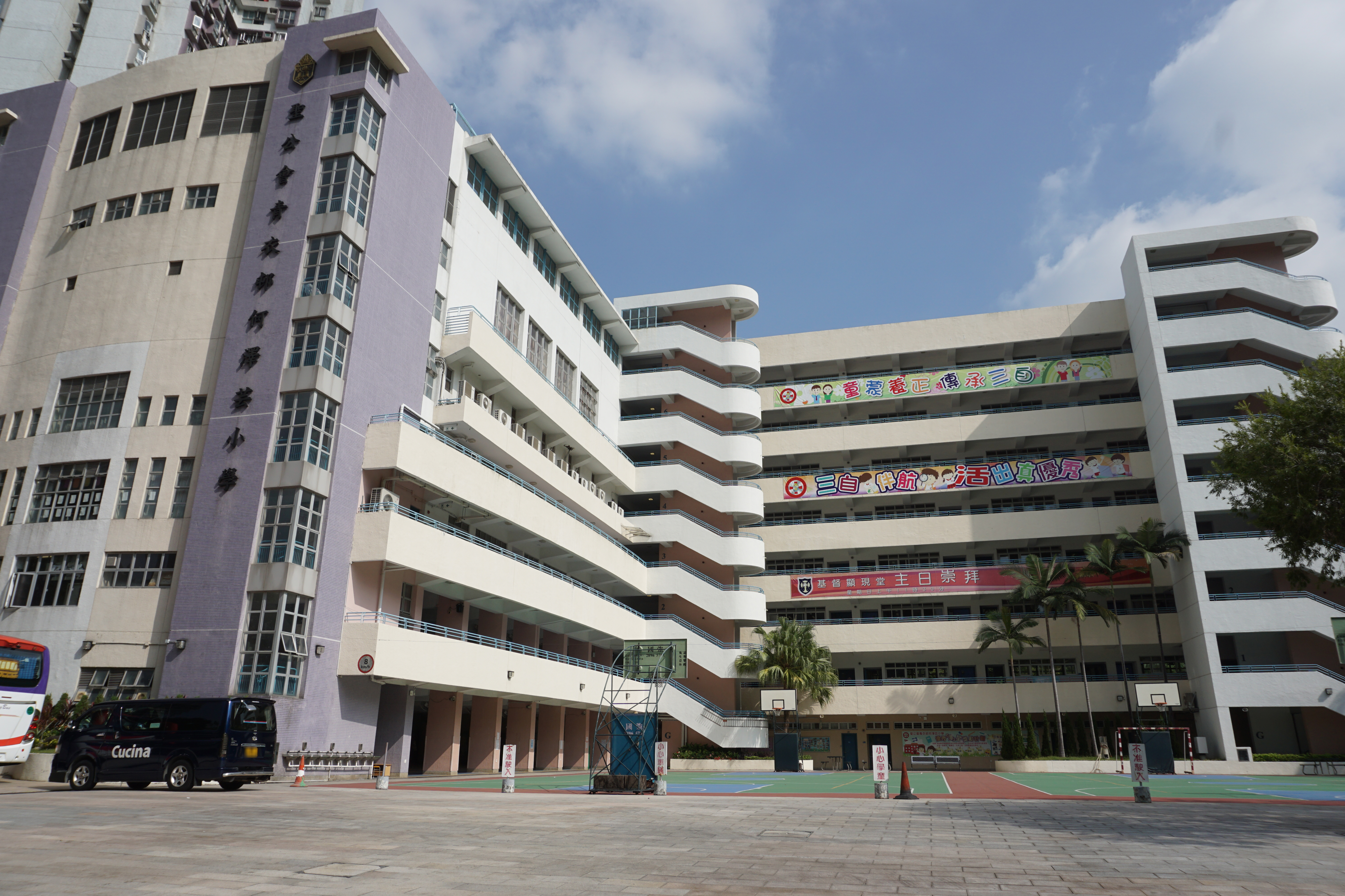 S.K.H. Tsing Yi Estate Ho Chak Wan Primary School in Tsing Yi, Hong Kong.